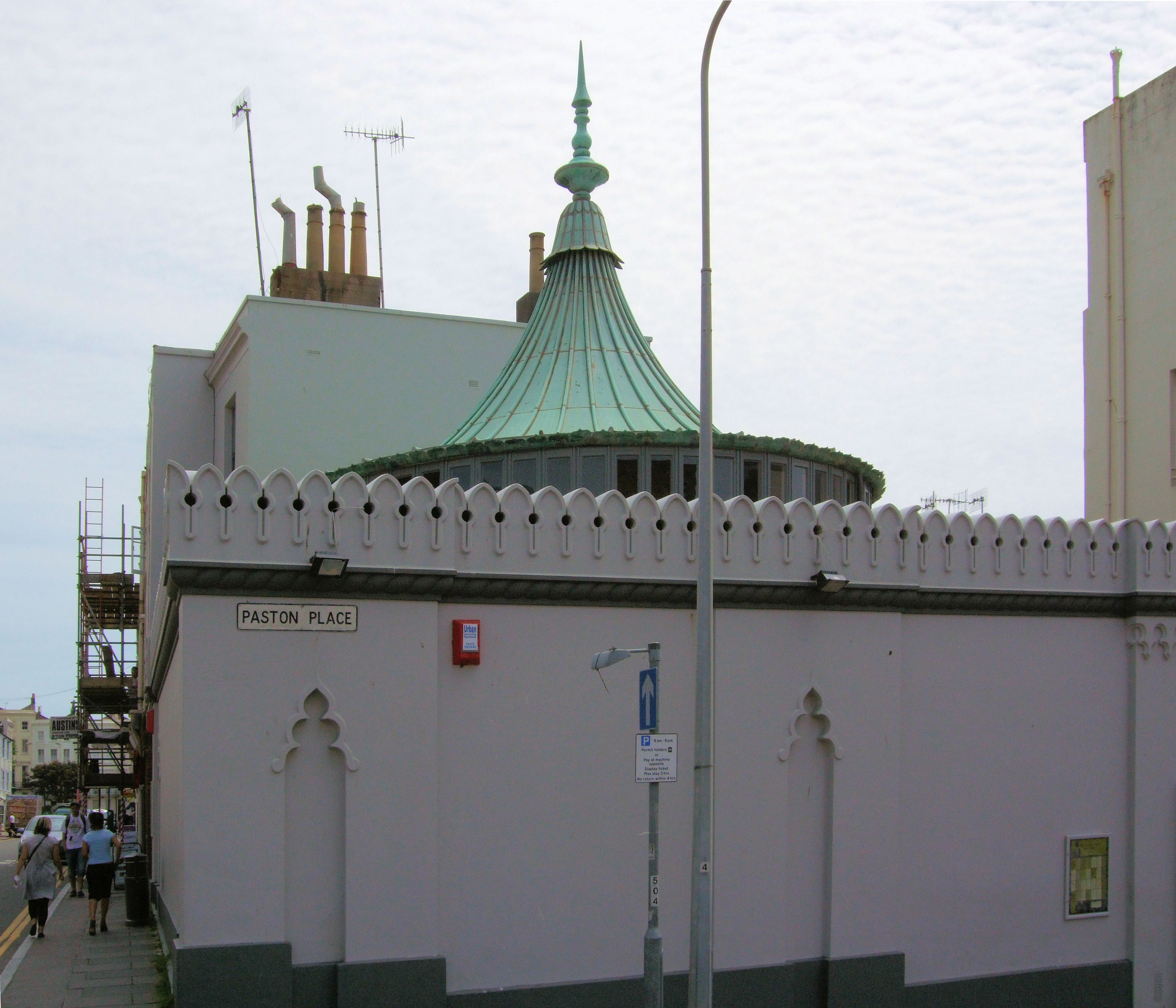 Former Sassoon Mausoleum, St George's Road & Paston Place, Kemptown, Brighton